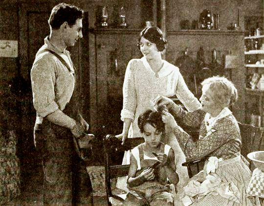 Still from the American film The Heart of Youth (1919) with Tom Forman and Lila Lee, on page 1845 of the August 30, 1919 Motion Picture News.